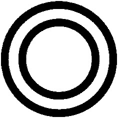 Sign for Japanese important cultural work